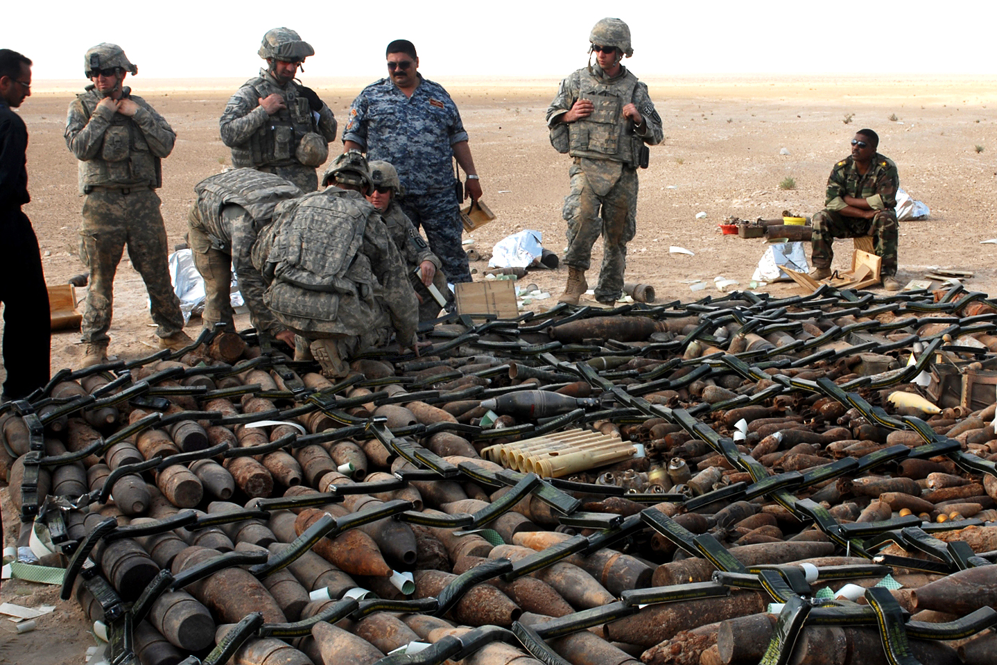 U.S. Army soldiers from the 760th Explosive Ordnance Disposal Company stand on nearly 8,000 pounds of inert and live munitions to inspect the work of Iraqi army and police in the desert near Karbala, Iraq, April 4, 2009. U.S. Army photo by Staff Sgt. Dave Lankford